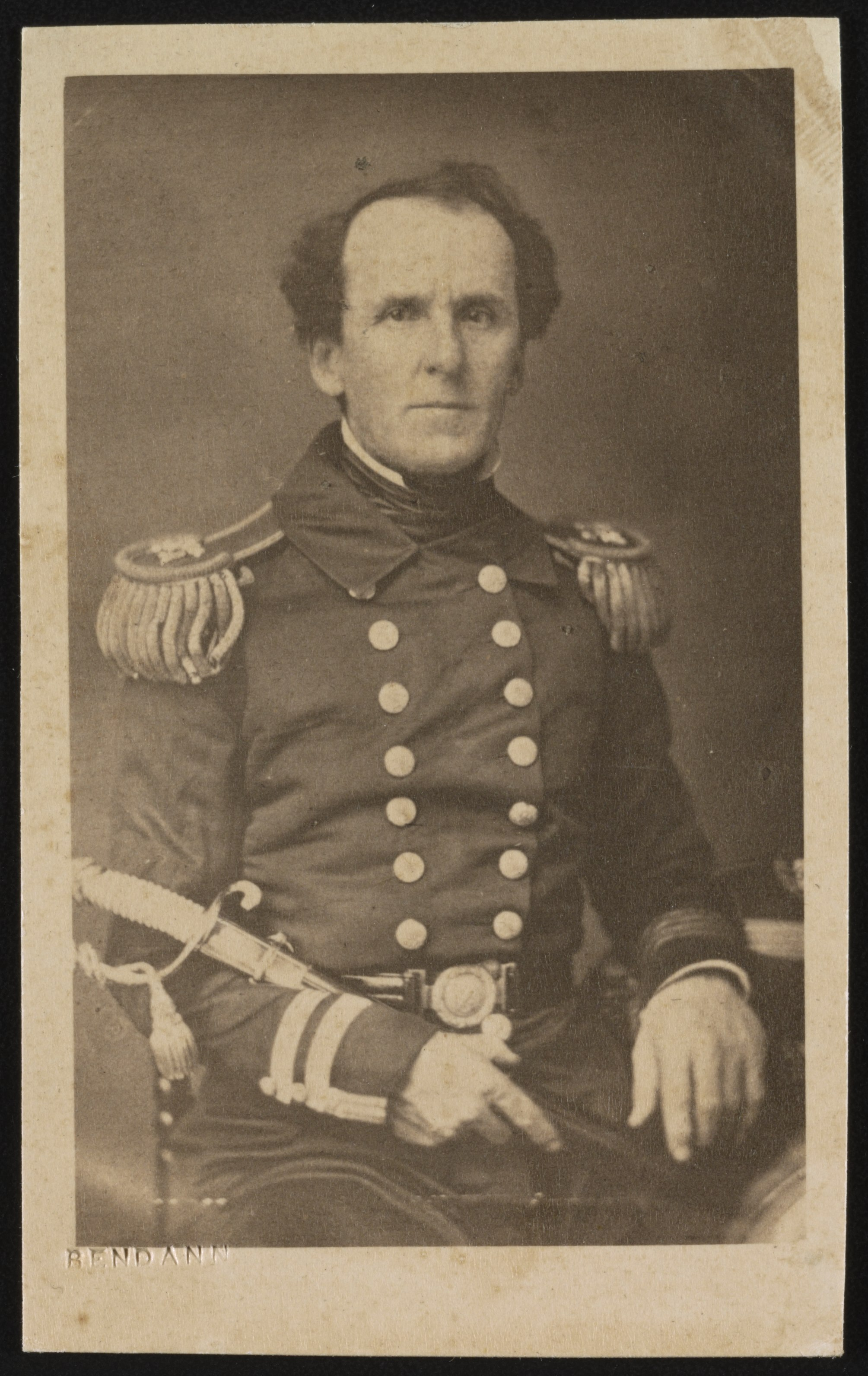 Title: Commander William F. Lynch of Confederate States Navy in uniform Abstract/medium: 1 photograph : albumen print on card mount ; mount 10 x 7 cm (carte de visite format)